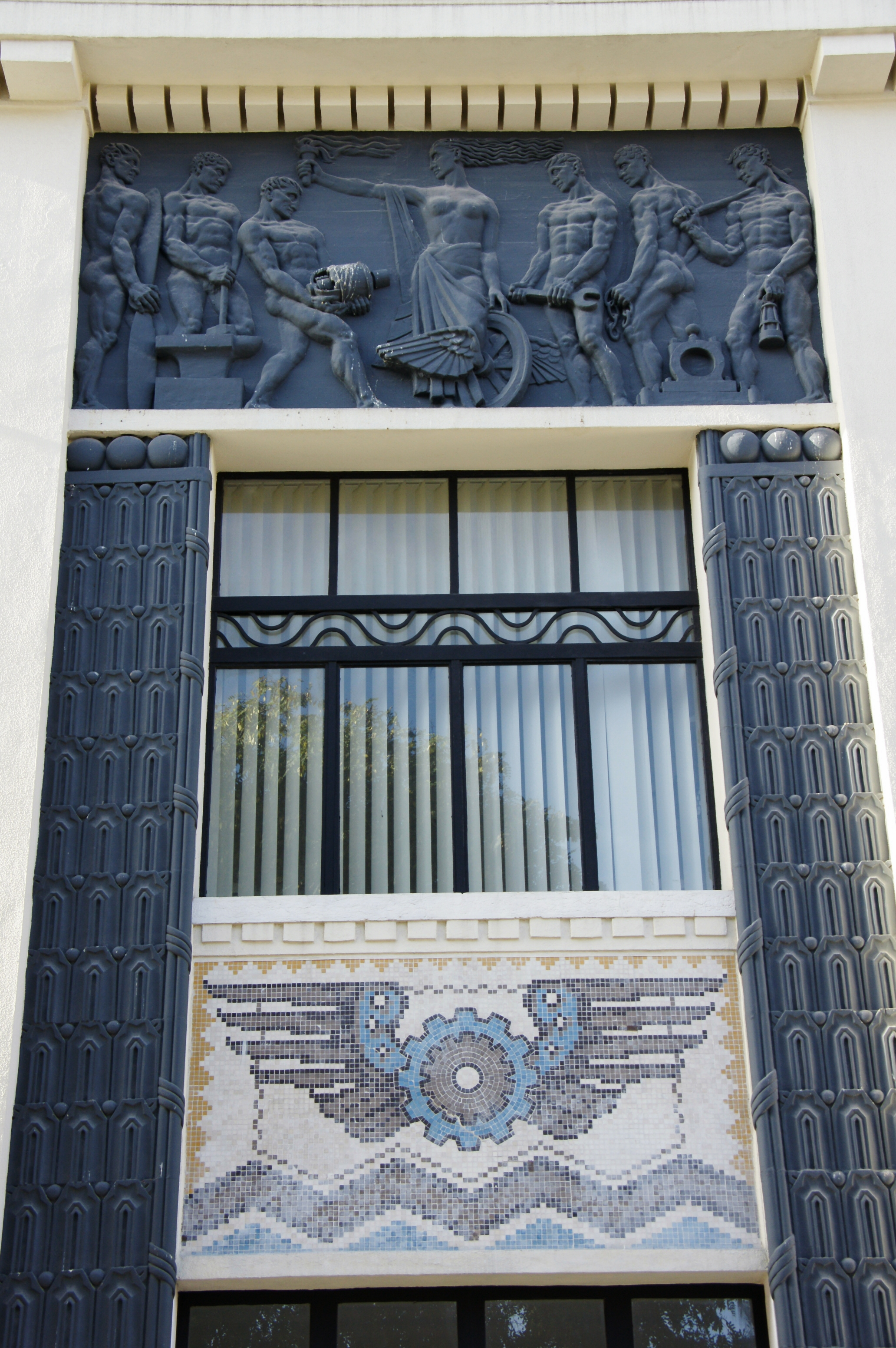 This file was uploaded for Wiki Loves Monuments in Portugal with the unique identifier 330869.